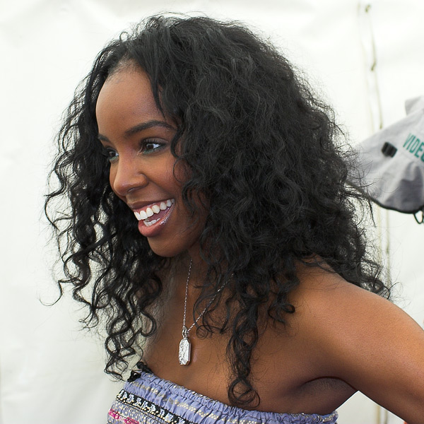 Kelly Rowland, backstage at T4 on the Beach in Weston-Super-Mare, England, July 2008. Photo copyright Jamey Howard.